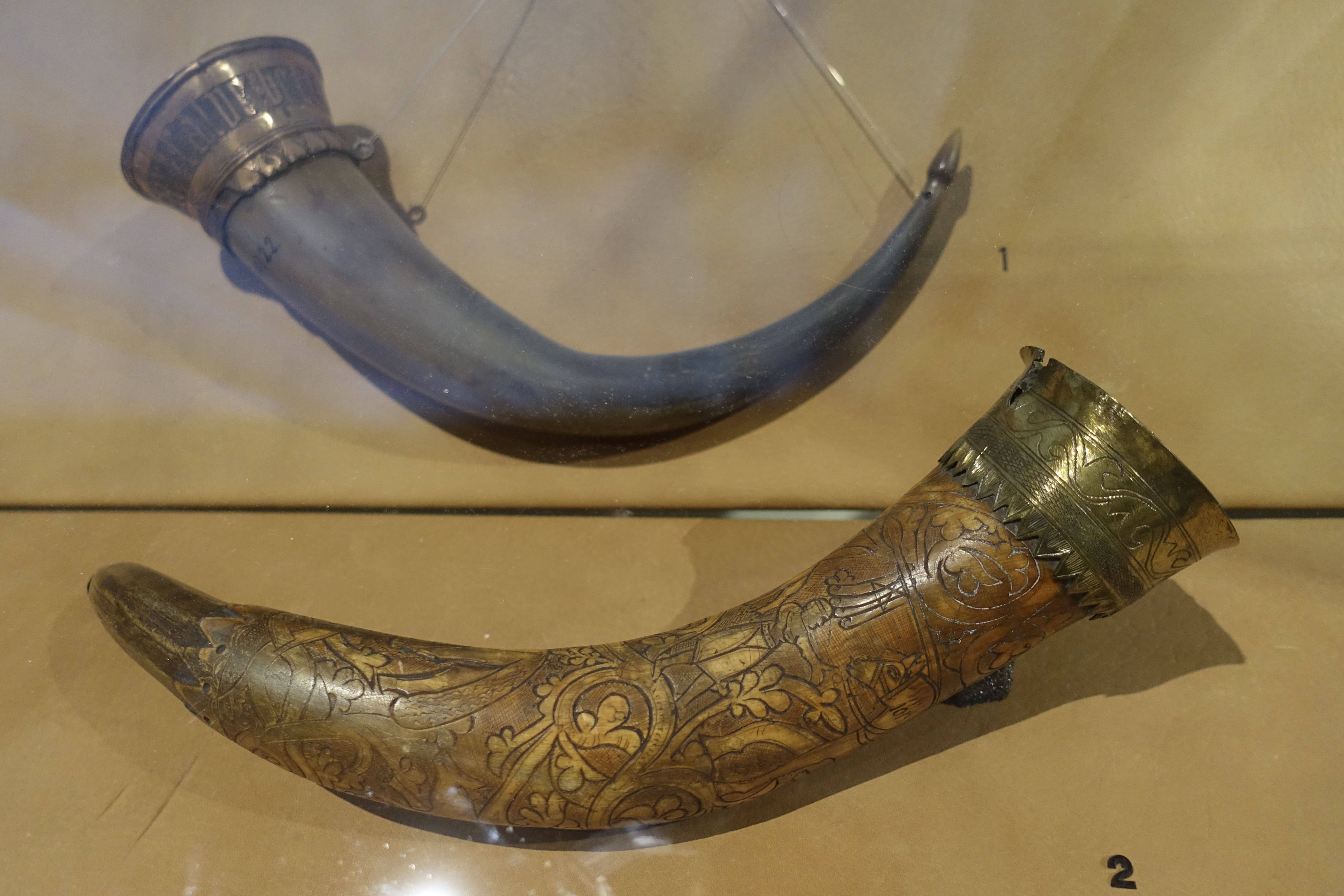 Two medieval drinking horns on display in the Medieval Room at the Museum of Cultural History in Oslo, Norway: 1. From about 1300, 2. From the 15th century.